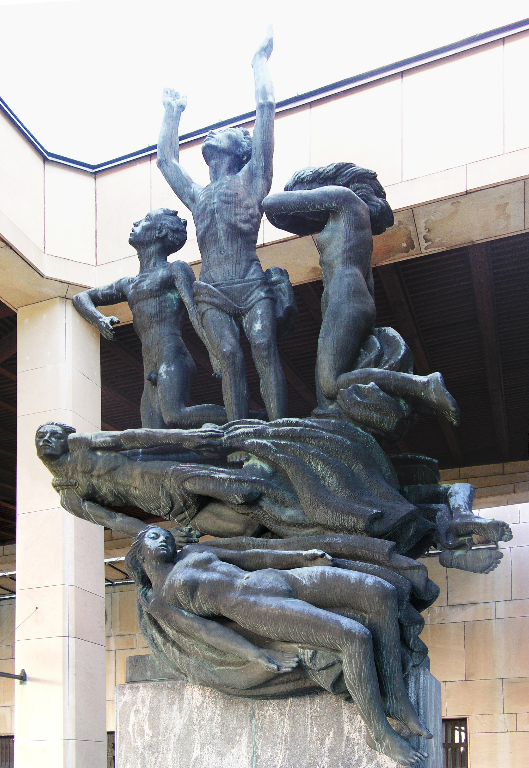 Skogskyrkogården, Resurrection Statue at the Holy Cross. Foto:Håkan Svensson (Xauxa) 2003. Sculptor: John Lundqvist, 1930. The statues are placed in e dark opening within the Holy Cross Chapel, and the soals are looking up into the dazzling light waiting for the resurrection. The picture was taken the 5 of July 2003 by Håkan Svensson (Xauxa). Composition of two pictures, corrections of light, contrast and restituation have been done to the image.